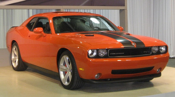 Dodge Challenger at the Texas State Fair.